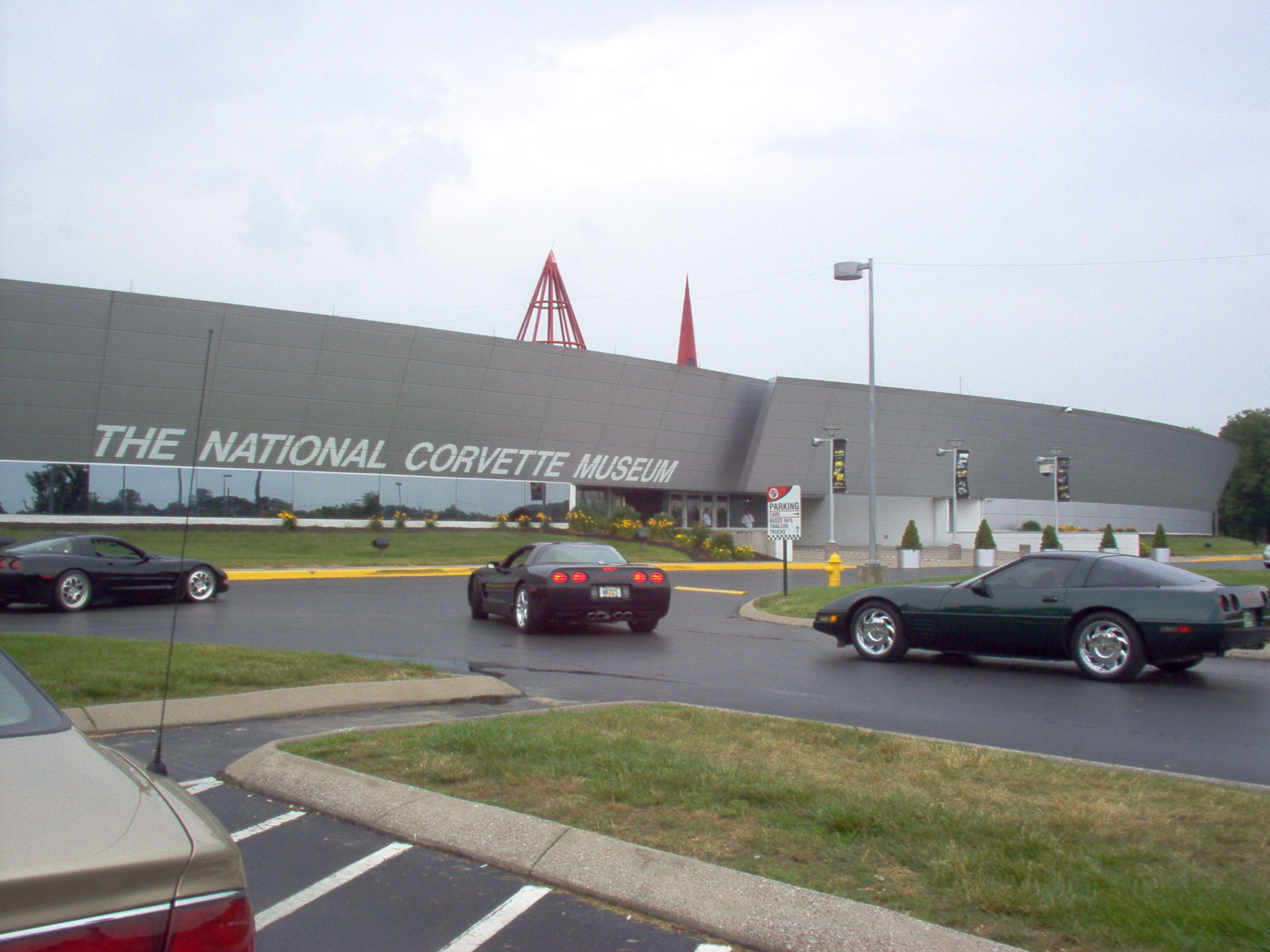 NCM